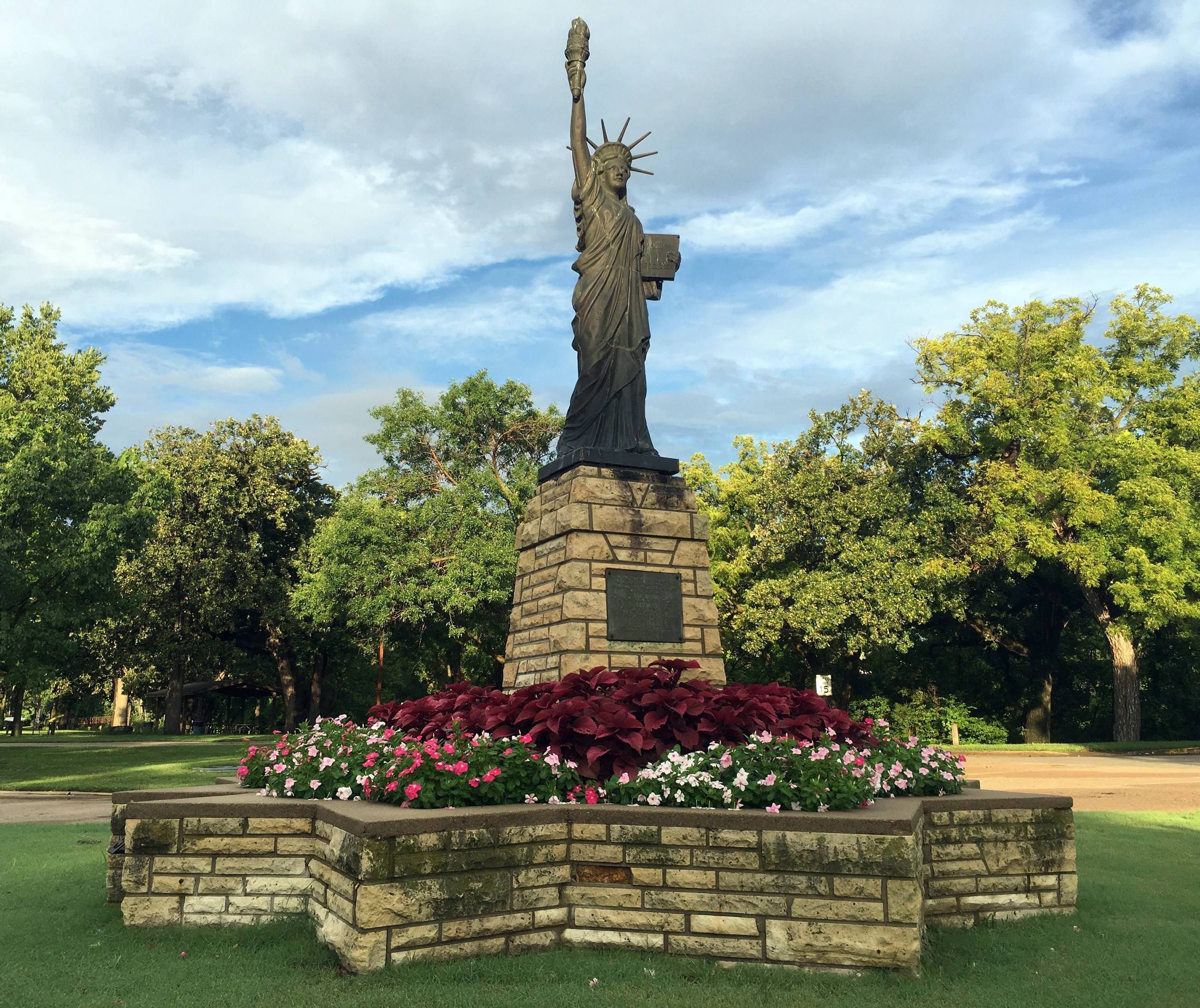 This is a scale model replica of the Statue of Liberty with pedestal and star shaped basin, about 20 feet tall, donated by the Boy Scouts of America (BSA) as part of the nationwide Strengthen the Arm of Liberty project of 1950, located in Oakdale Park in Salina, Kansas.